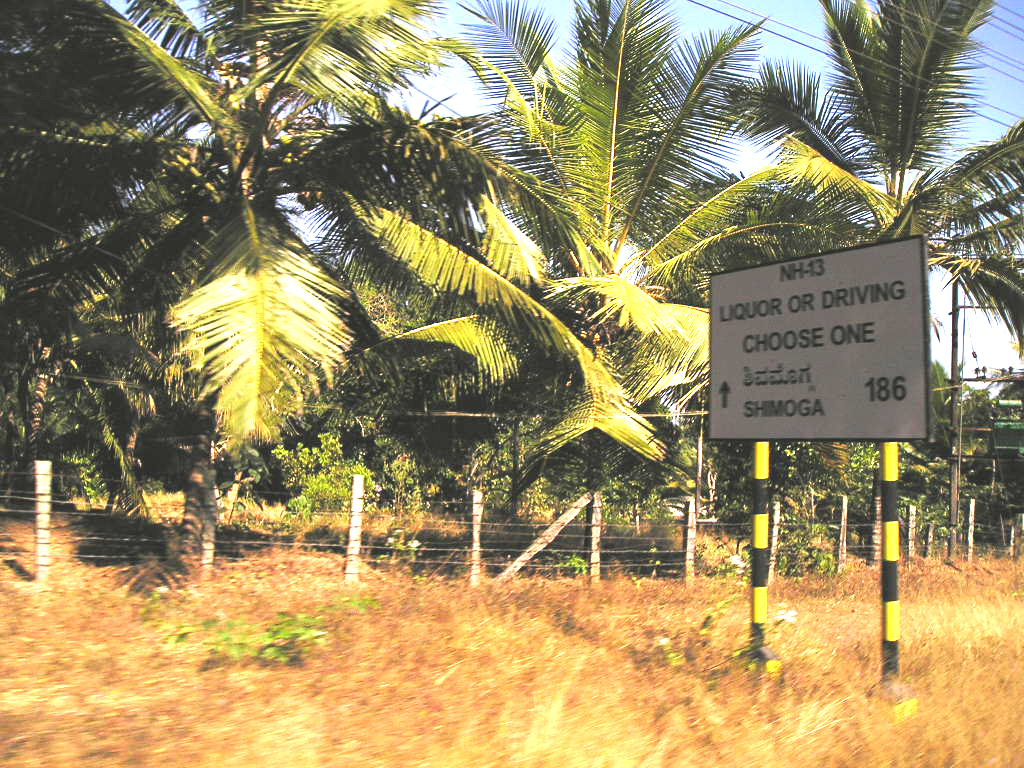 A road sign attempts to discourage drivers from drinking and driving in India.